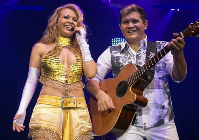 Em março de 2006, a Nativa FM completou 9 anos de fundação. Tal fato foi comemorado com um grande festival, realizado na casa de espetáculos Olympia, em São Paulo, e contou com apresentação da Banda Calypso.